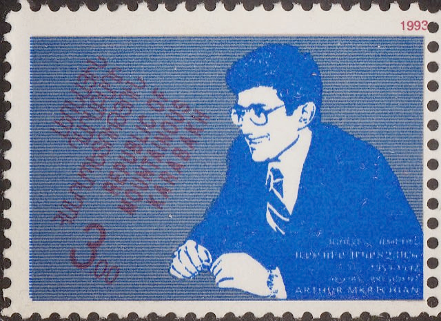 Arthur Mkrtchian, first President of the NKR